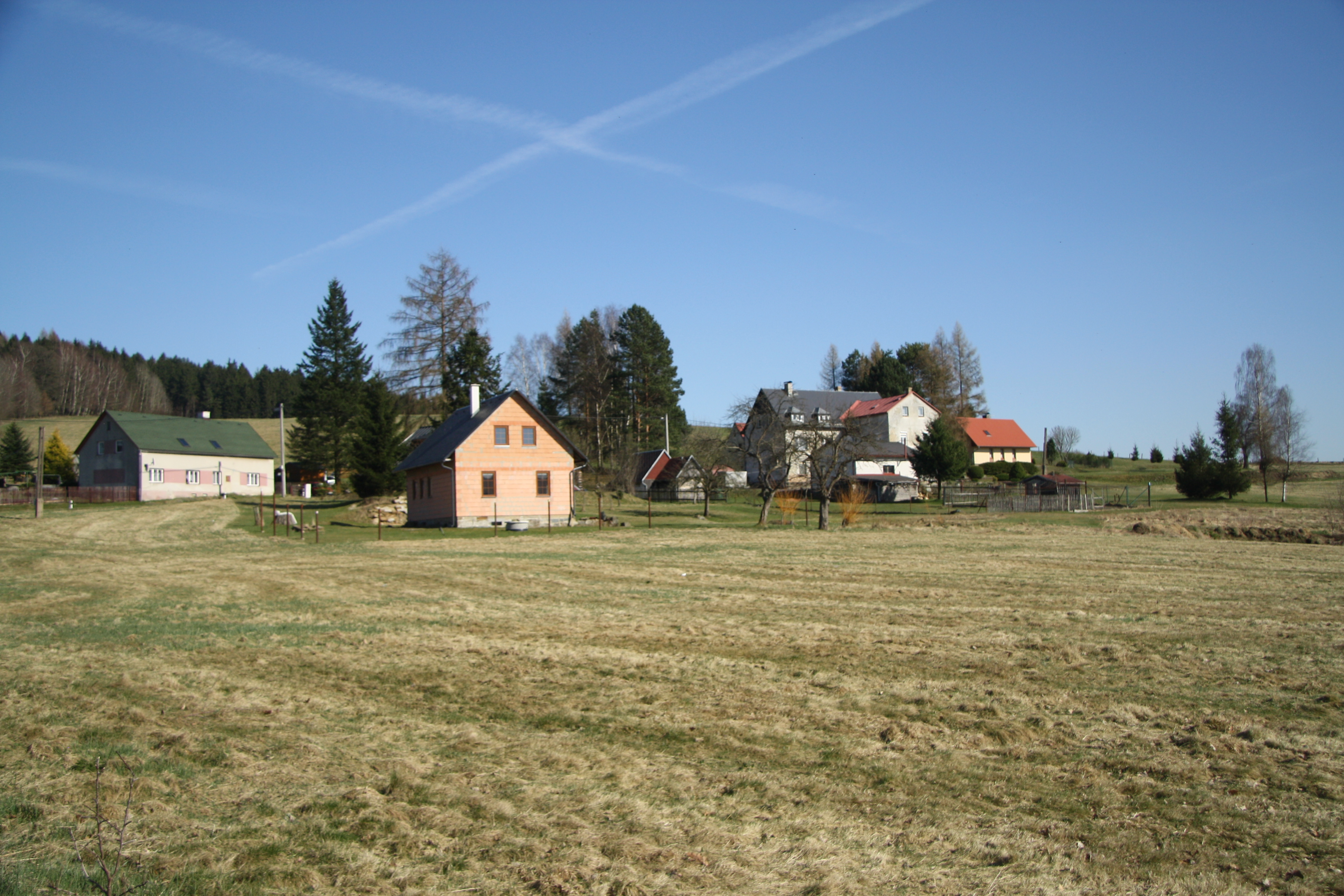 Houses in Marketa, Dolní Poustevna, Děčín District.